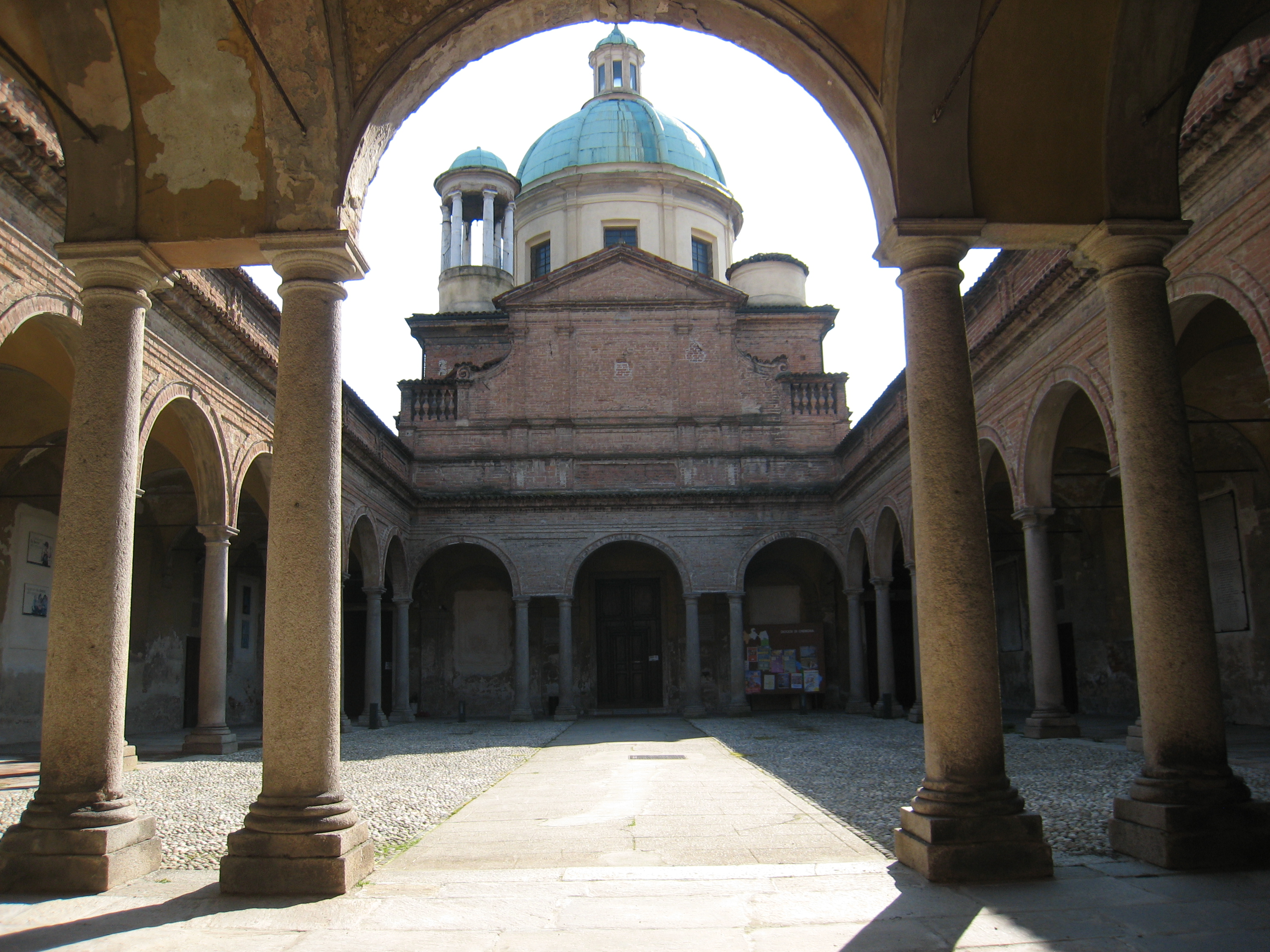 San Facio's Church (known as Foppone Church) in Cremona.